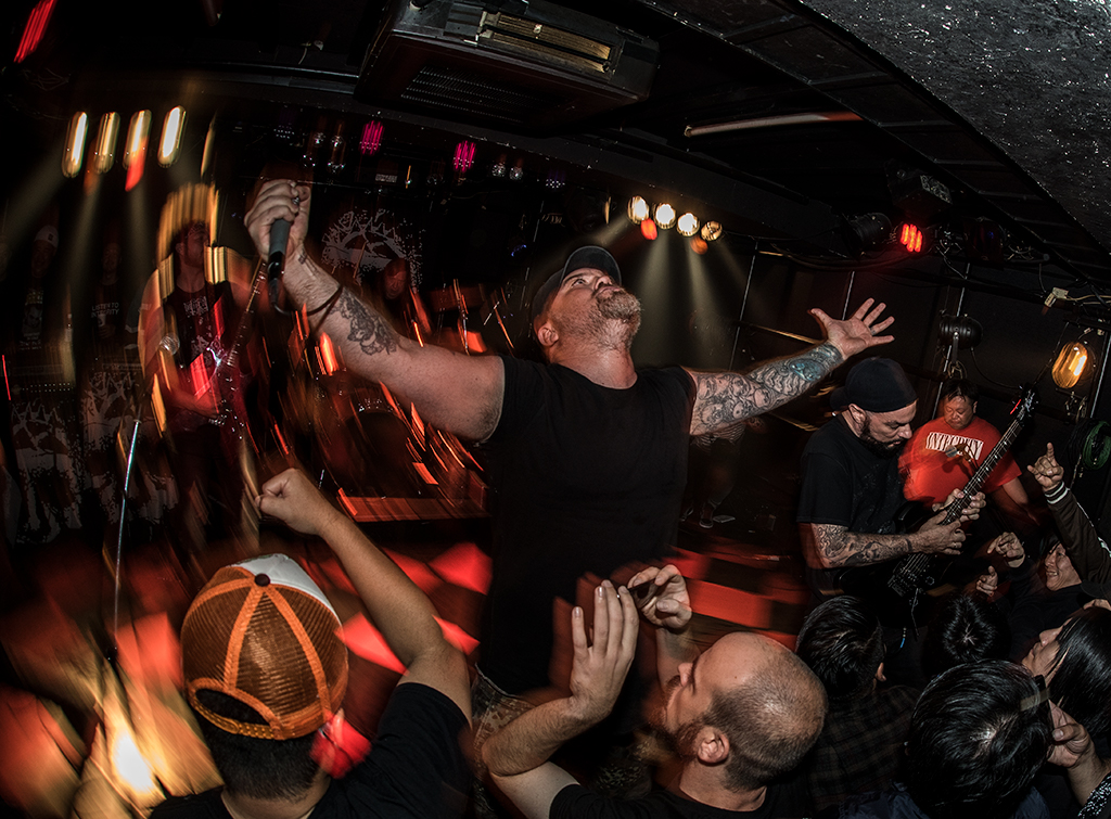 Integrity live at Antiknock, Shinjuku, Tokyo, Japan on 6 OCT 2017